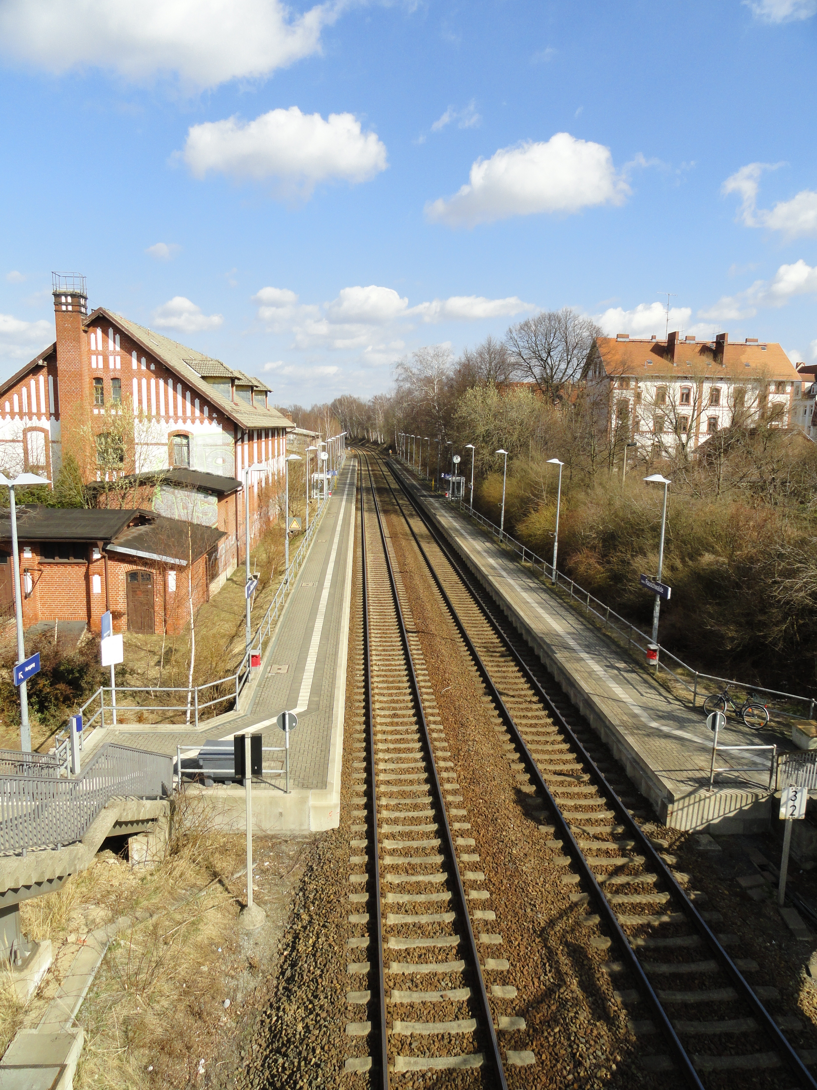 flag stop Görlitz-Rauschwalde